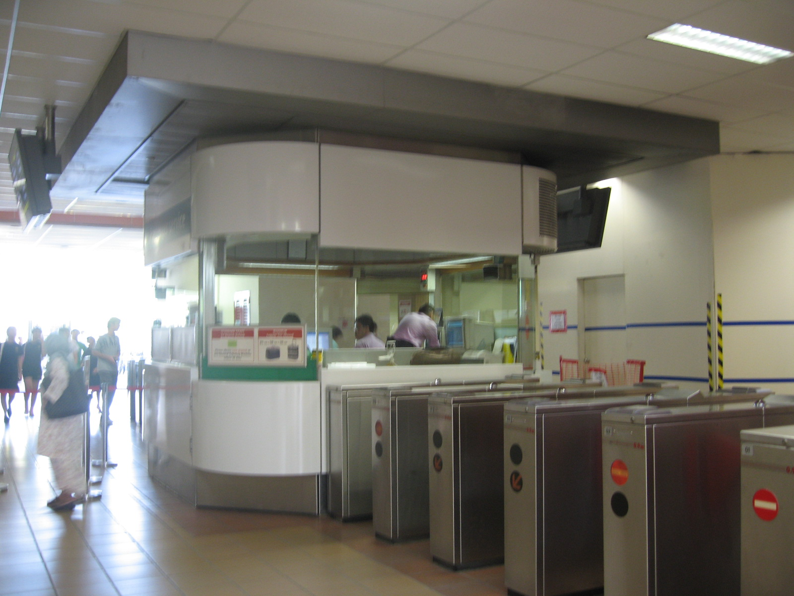 Bishan MRT Station.